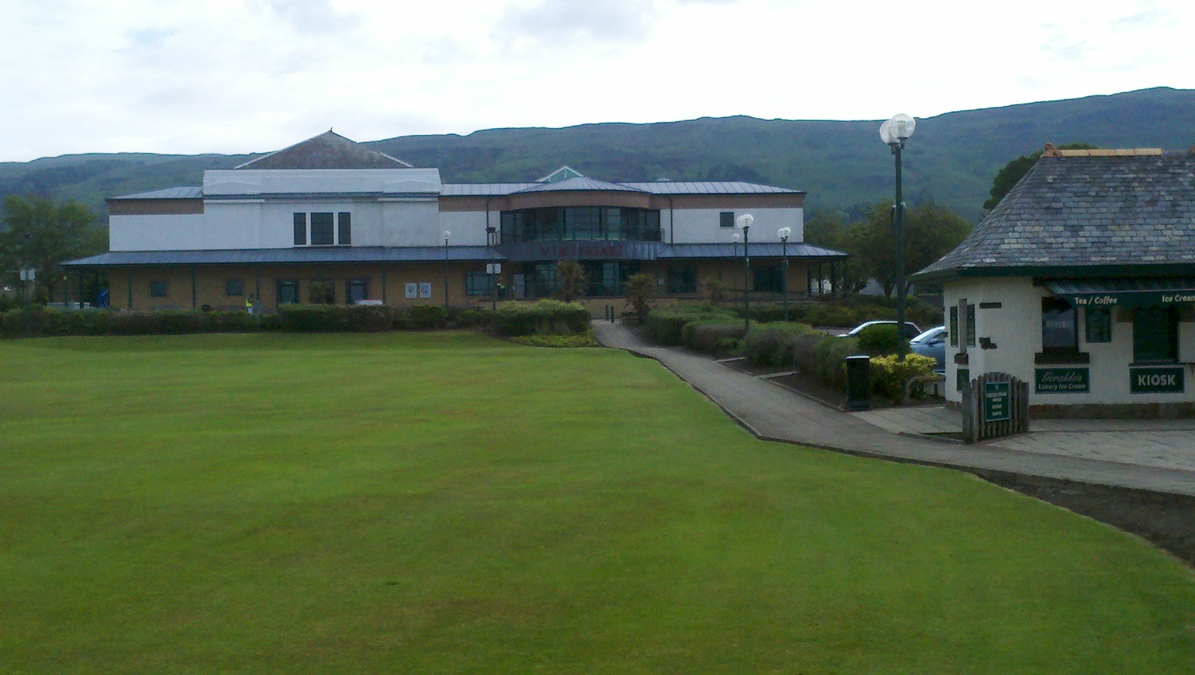 Vikingar Centre at Barrfields, taken mid-morning from Greenock Road, Largs, on 1-6-2012